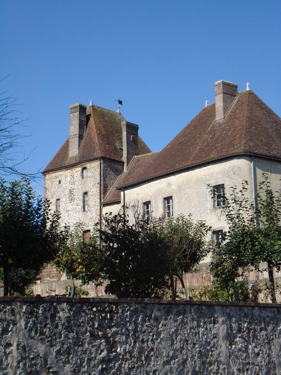 Senonches